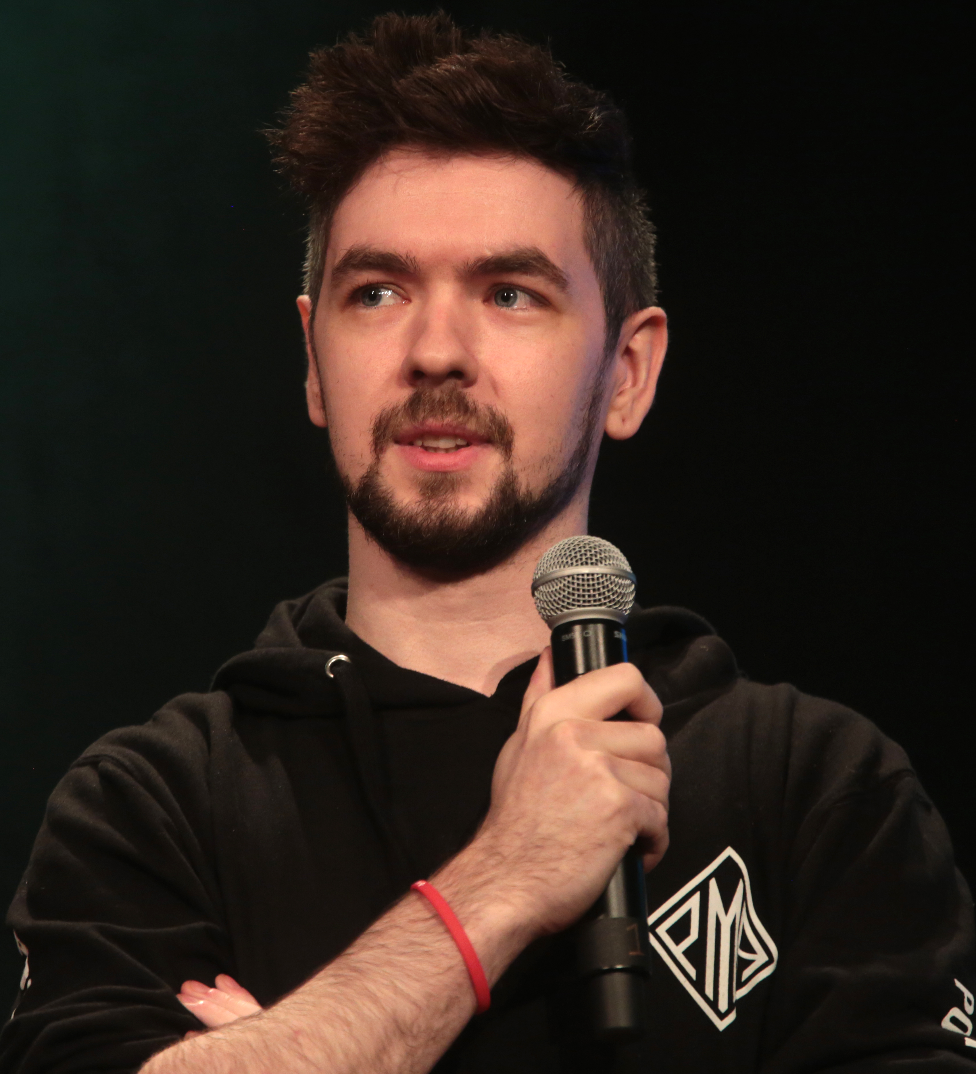 Jacksepticeye speaking with attendees at the 2018 PAX West at Benaroya Hall in Seattle, Washington.